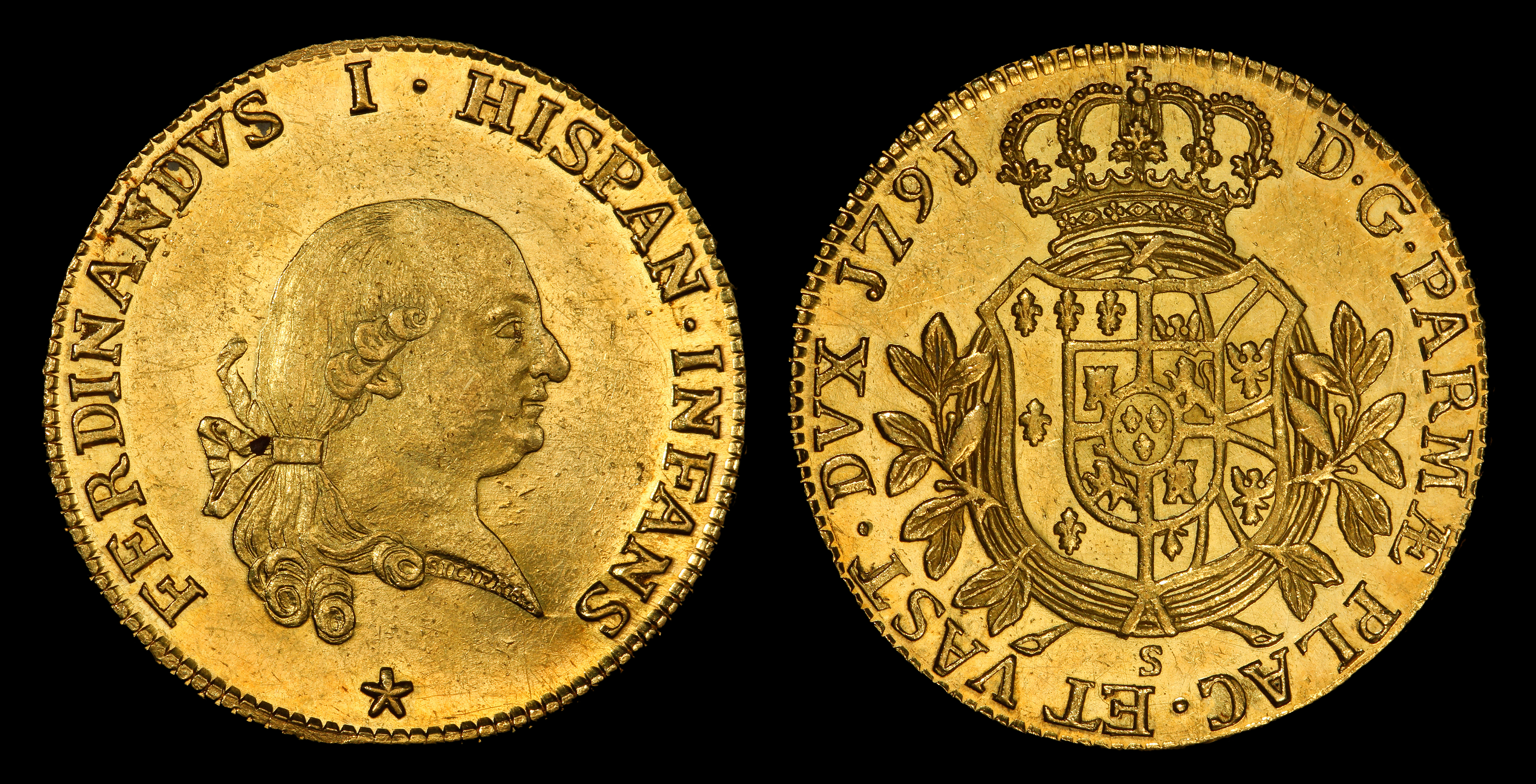 Parma, 8 Doppie (1791-S). Depicting Ferdinando di Borbone.